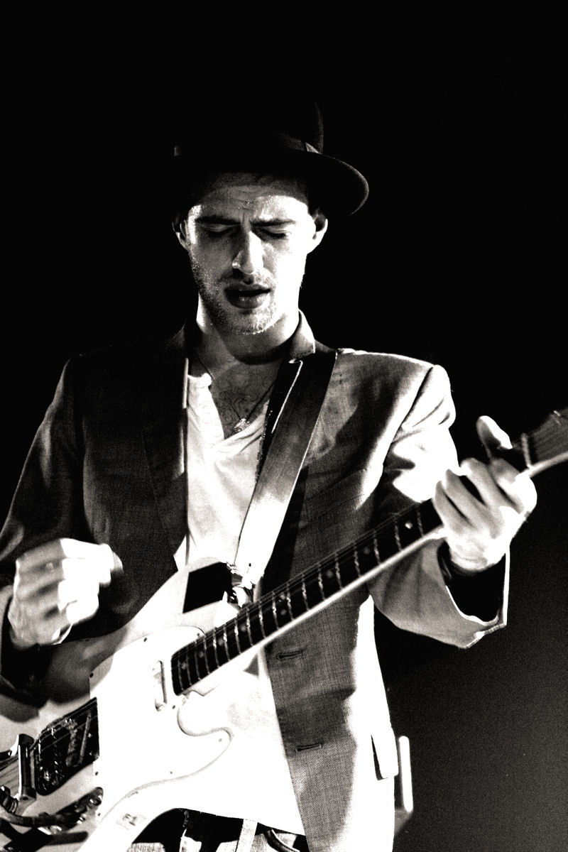 Singer Finn Andrews of The Veils performing with guitar at a concert in Doornroosje Nijmegen, The Netherlands. 2007.Made at a concert at Doornroosje, Nijmegen, The Netherlands. Date: 2007-05-03, Time: 22:44:49. 011 sec (1/90)Aperture: f/2.8 Focal Length: 82 mm ISO Speed: 1600 Exposure Bias: -3/2 EV